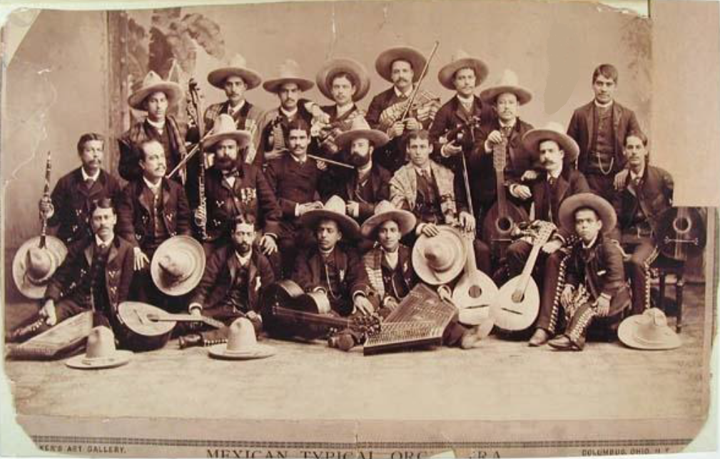 Mexican Typical Orchiestra or La Orquesta Típica de la Ciudad de México in Columbus, Ohio on their United States Tour in 1885.